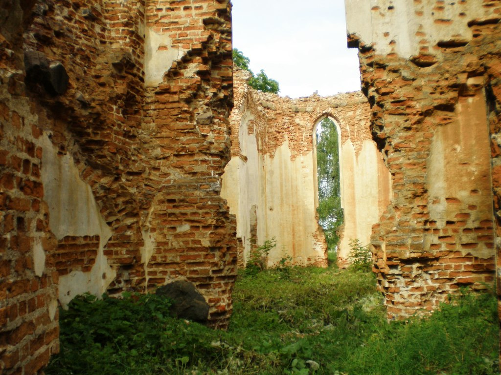 Old church in Deltuva